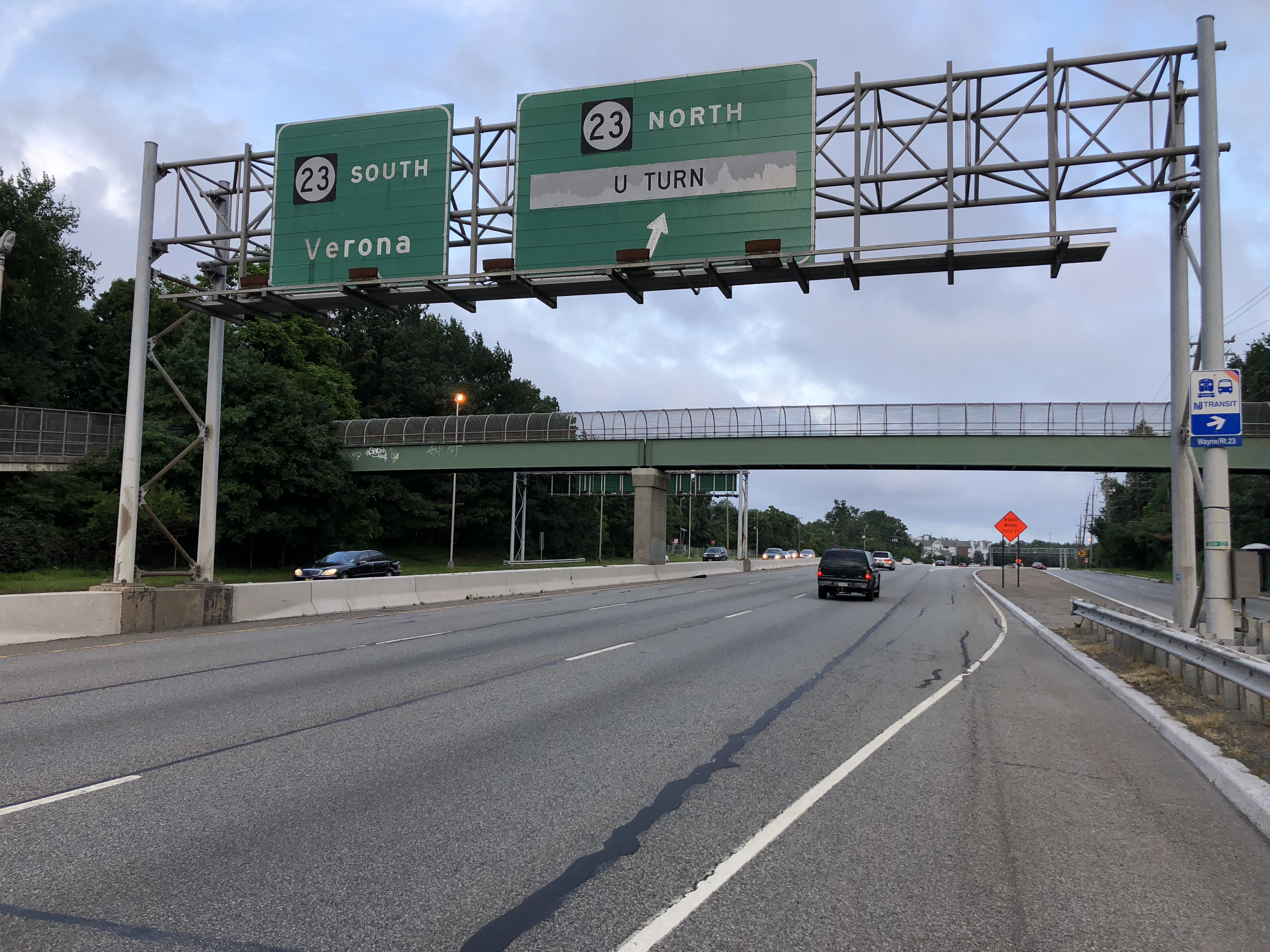 View south along New Jersey State Route 23 just south of the exit for U.S. Route 202 SOUTH in Wayne Township, Passaic County, New Jersey